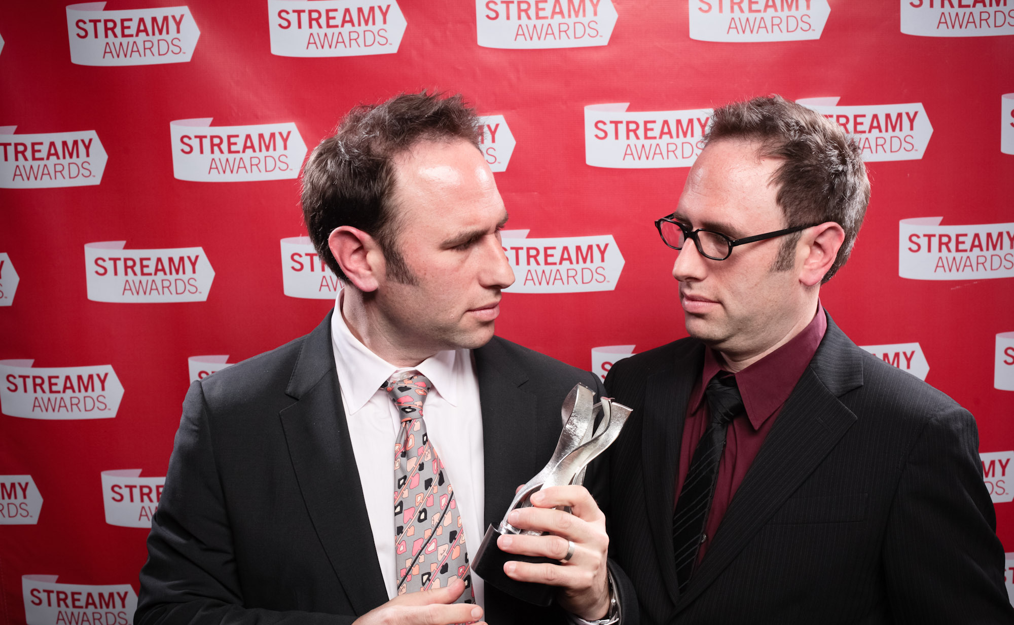 Thanks for viewing the official Streamy Awards photos! The exclusive photos of the winners and presenters are here. You don't want to miss those! We could not have done this without our awesome team of associate photographers: Bonny Pierzina Gabriel Ryan Laura Kearse Joe Philipson Kevin Calumpit Luis Miguel Munoz-Najar Actually, without our production team we could not have done this either: Josh Allard Megan Chrisofferson Mark Bealo Scott Kearse Thanks so much everyone for your hard work, and thanks so much Streamy Awards for using us again for the official photography! Please feel free to use these photos under a Creative Commons Attribution license (which means you may use the photos as long as you attribute the photos to and provide a link back to ) You can learn more about the Sreamy Awards by visiting Also, you can learn more about these photos by visiting our website with our favorite Streamy Awards photos.